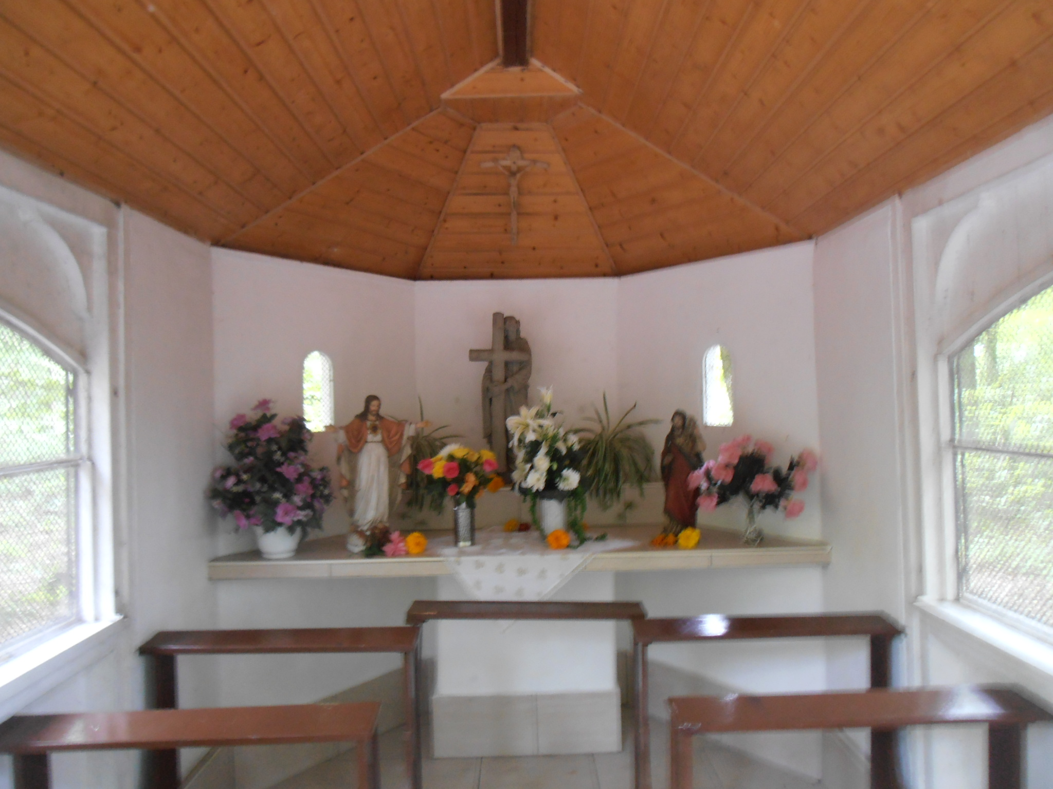 Interior of the Kocherwaldkapelle